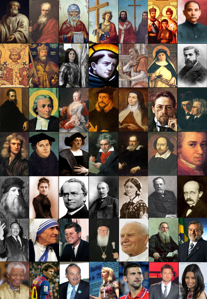 Collage of photos of 49 Christians known figures - Saint Peter, Paul the Apostle, John of Damascus, Saint Helena, Saints Cyril and Methodius, The Romanovs, Sun Yat-sen, Constantine the Great, Charlemagne, Joan of Arc, Thomas Aquinas, Augustine of Hippo, Catherine of Siena, Antoni Gaudí, Michelangelo, Jean-Baptiste de La Salle, Maria Theresa, Jean Calvin, Teresa of Ávila, Anton Chekhov, Brothers Grimm, Isaac Newton, Martin Luther, Christopher Columbus, Ludwig van Beethoven, Galileo Galilei, William Shakespeare, Wolfgang Amadeus Mozart, Leonardo da Vinci, Thérèse of Lisieux, Gregor Mendel, John D. Rockefeller, Florence Nightingale, Louis Pasteur, Max Planck, Martin Luther King Jr., Mother Teresa, John F. Kennedy, Patriarch Bartholomew I of Constantinople, Pope John Paul II, Leo Tolstoy, Luiz Inácio Lula da Silva, Nelson Mandela, Lionel Messi, Carlos Slim Helú, Marissa Mayer, Novak Djokovic, Gerard Butler, Freida Pinto. Christians have made a myriad contributions in a broad and diverse range of fields, including the sciences, arts, politics, literatures and business. According to 100 Years of Nobel Prizes a review of Nobel prizes award between 1901 and 2000 reveals that (65.4%) of Nobel prizes Laureates, have identified Christianity in its various forms as their religious preference. Overall, Christians have won a total of 78.3% of all the Nobel Prizes in Peace, 72.5% in Chemistry, 65.3% in Physics, 62% in Medicine, 54% in Economics and 49.5% of all Literature awards. Anyone can use these original photos themselves among others and make another collage of (Christians) themselves or remix as they wish, as long as they give the correct source and usage/Copyright given. Dont delete the photos, if one becomes unusable due to copyright, please dont delete, just replace the photo or i will.